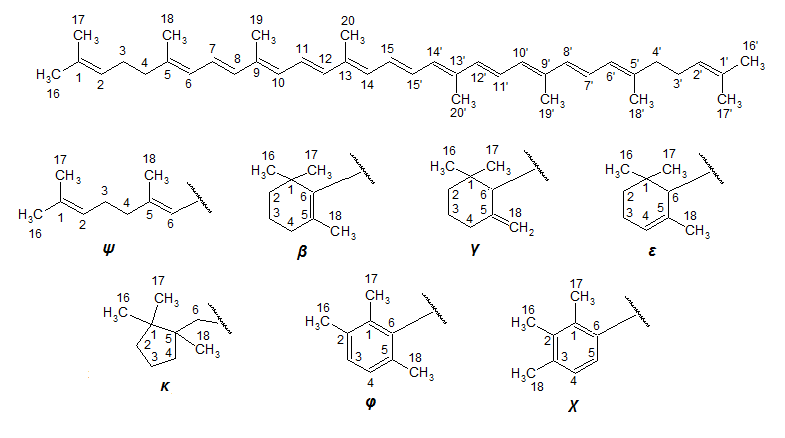 Carotenes numbering